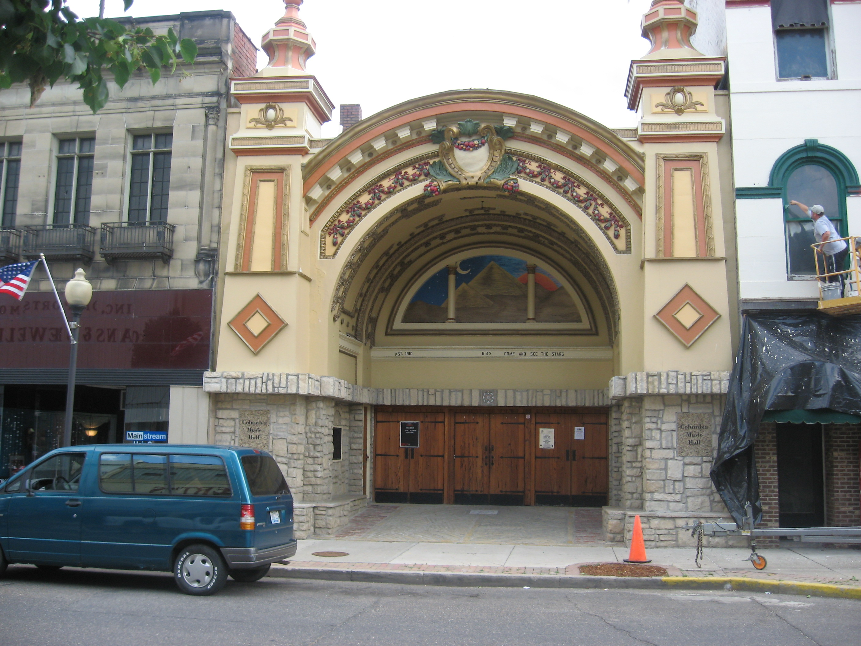 The newly renovated Columbia Music Hall in Portsmouth, Ohio